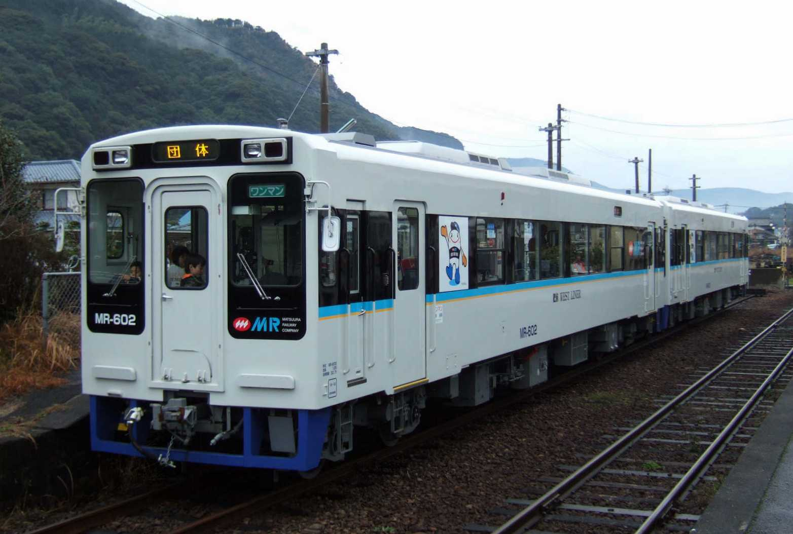 Matsuura Railway MR-300 series DMU at Saza Station